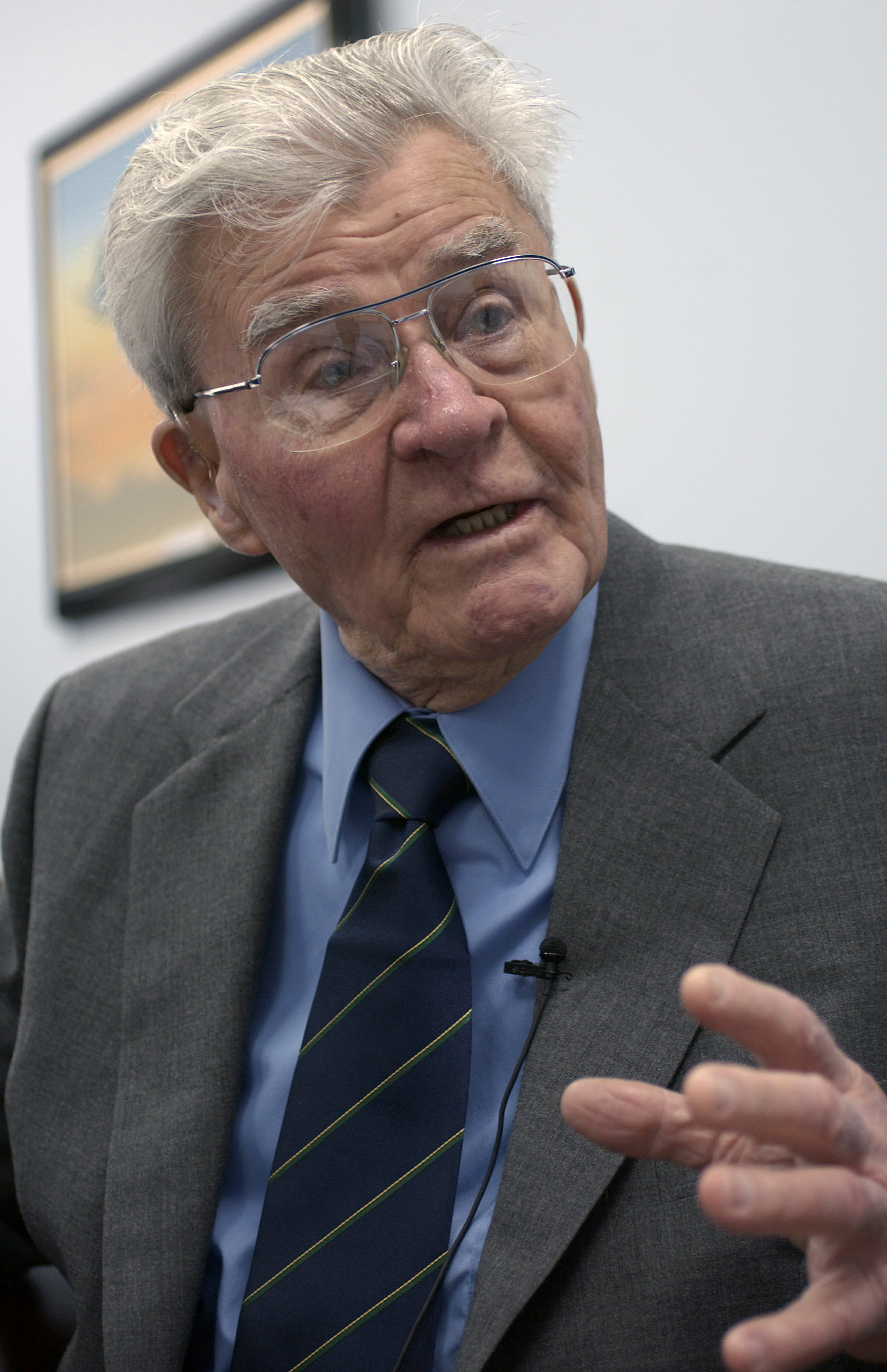 Paul Tibbets, pilot of the Enola Gay, in 2003. Original caption: ID: DFSD0602054 Service Depicted: Air Force 031210F3050V112 Retired US Air Force (USAF) Brigadier General (BGEN) Paul W. Tibbets talks about his experience flying the B-29 Superfortress, the Enola Gay, that delivered the first atomic bomb during World War II. BGEN Tibbets spoke to a gathering prior to autographing copies of his book "The Return of the Enola Gay," at a book-signing event in the Pentagon Concourse.